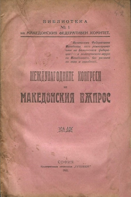 International Congresses and the Macedonian Question 1922 Cover